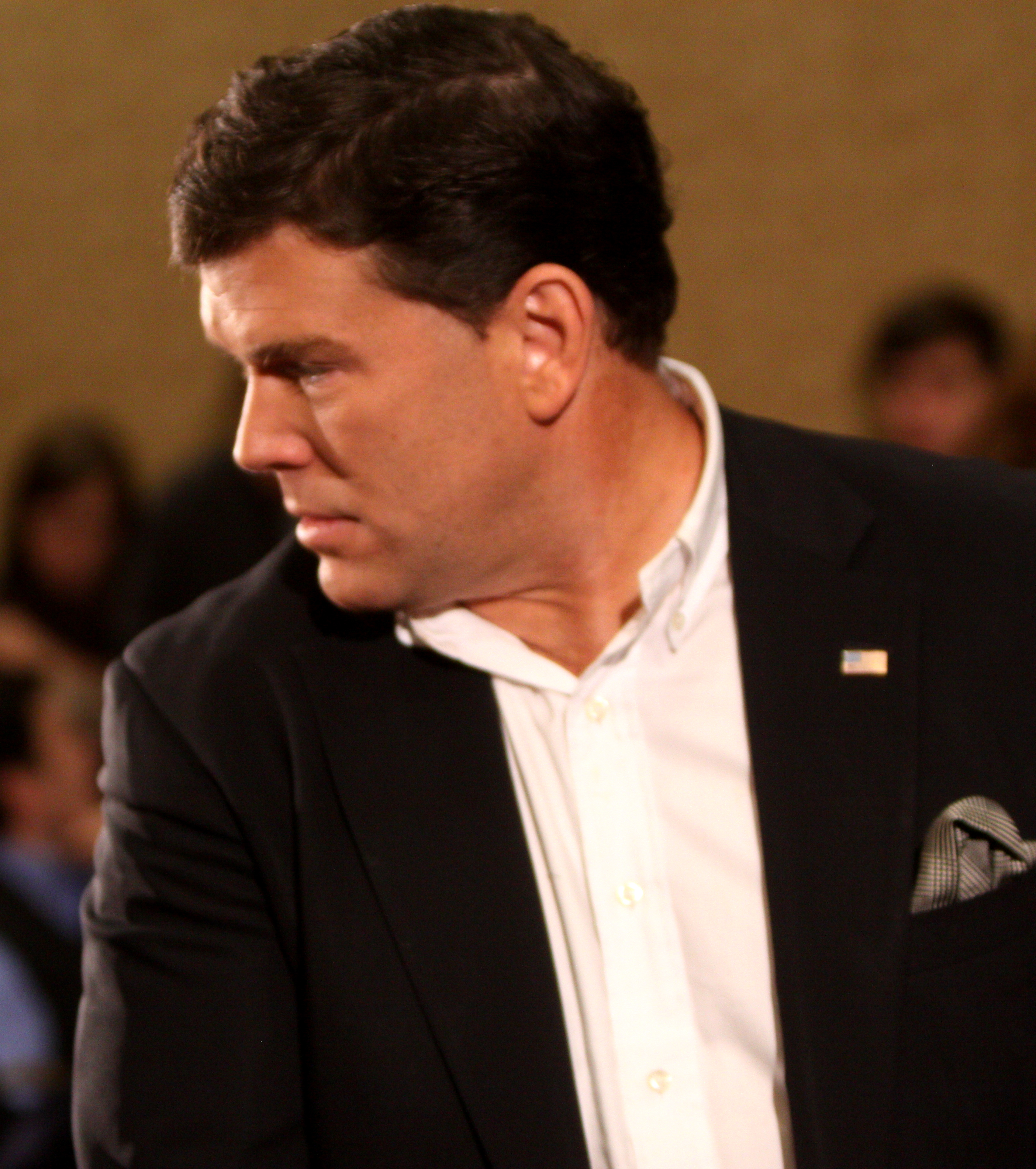 Bret Baier in Des Moines, Iowa on January 2, 2012.